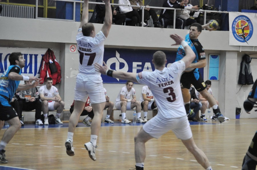 Nikola Stojcevski, macedonian handballplayer. Hc Metalurg - Bosna Sarajevo